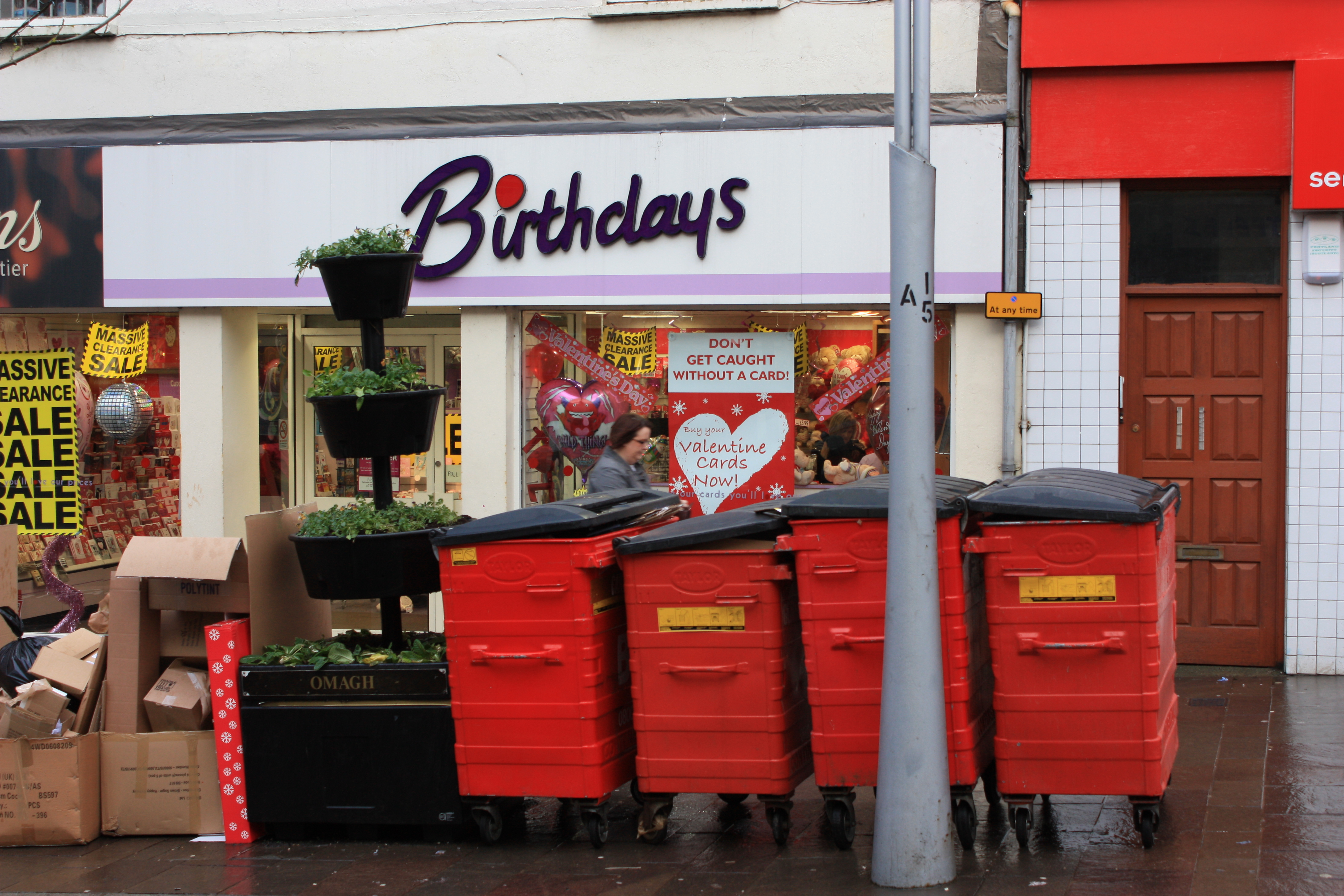 Birthdays, High Street, Omagh, County Tyrone, Northern Ireland, January 2010